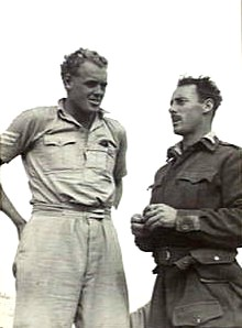 Maddalena, Cyrenaica, North Africa. 30 November 1941. Wing Commander (Wg Cdr) Peter 'Pete' Jeffrey DSO DFC of the RAAF with Sergeant (Sgt) A. Cameron of No. 3 Squadron RAAF whom he picked up in his Curtiss P40 Tomahawk aircraft in enemy territory after the Sergeant's aircraft had crashed. Sgt Cameron was shot down after a hectic dog-fight but managed to crash-land unhurt. He was seen by Wg Cdr Jeffrey who landed and abandoning his parachute, stowed Sgt Cameron (easily the biggest man in the squadron) into the cockpit with him and returned to base. For his action, Wg Cdr Jeffrey was awarded the Distinguished Service Order (DSO).